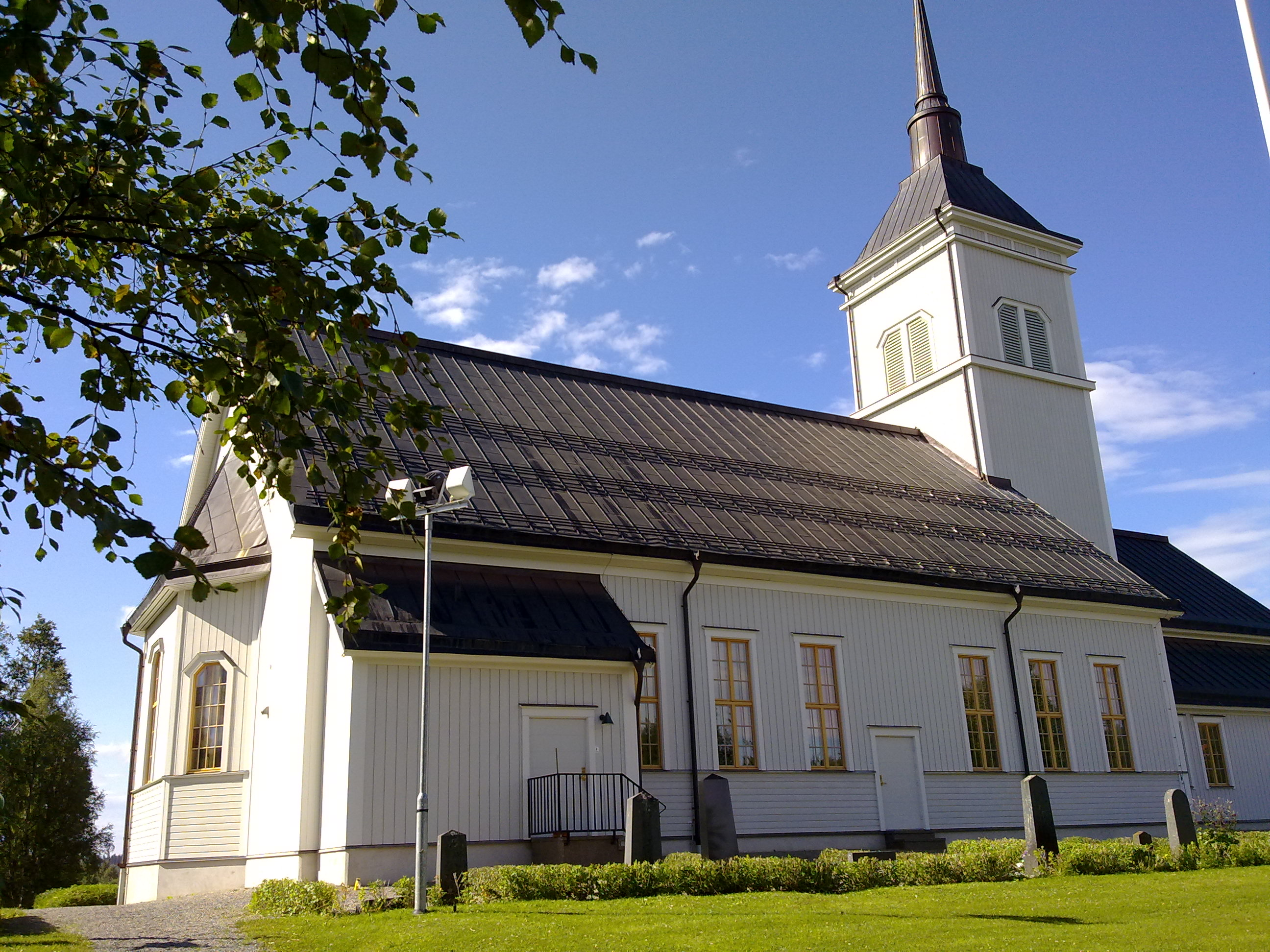 Church of Föllinge, Krokom municipality, Jämtland, Sweden